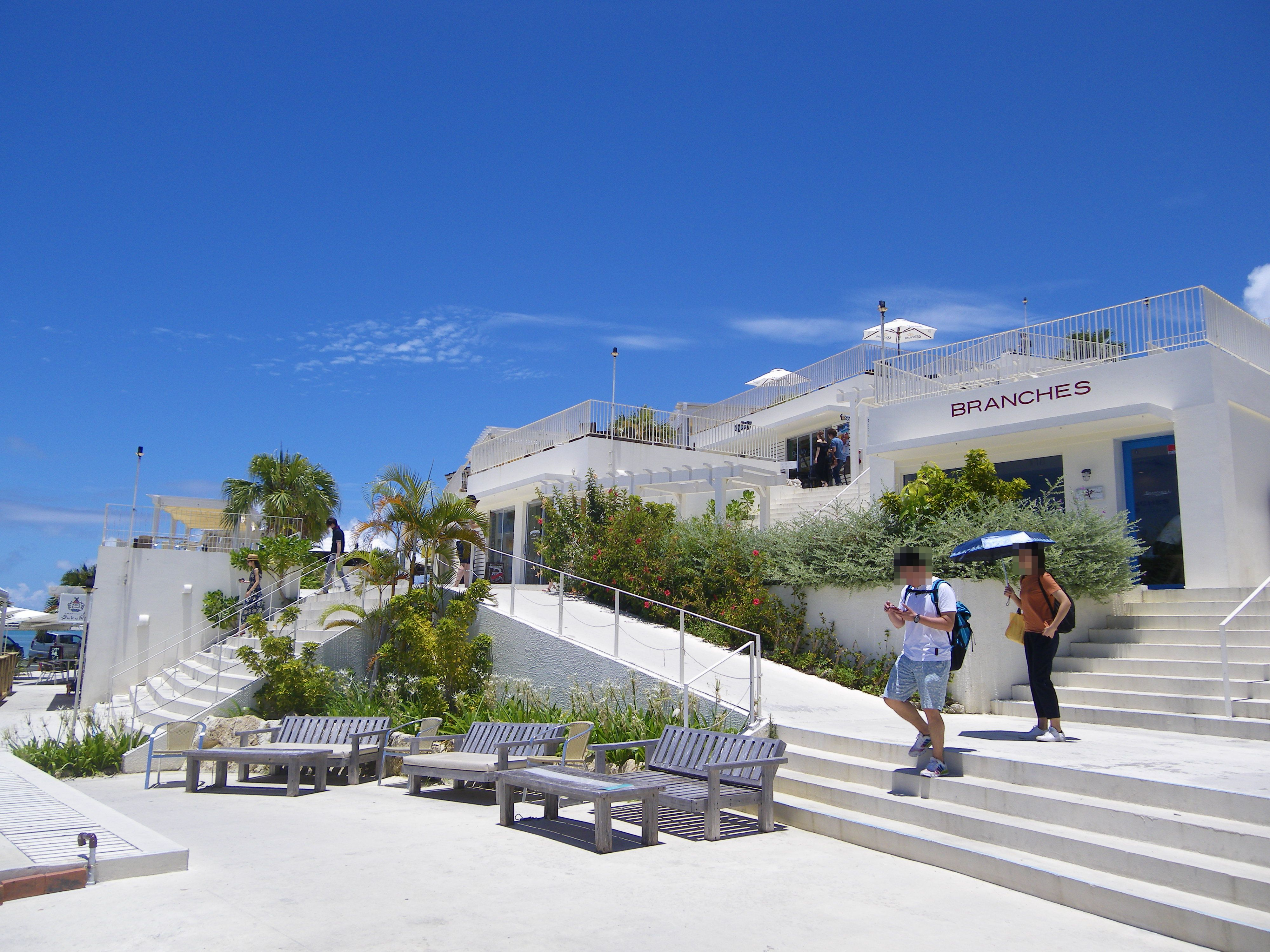 Umikaji Terrace Senagajima